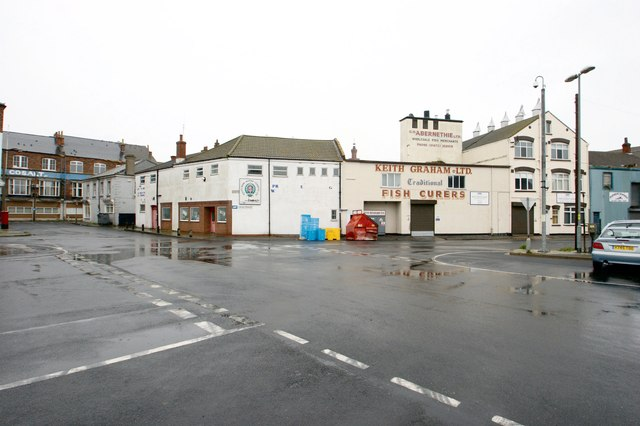 Cross Street, Grimsby